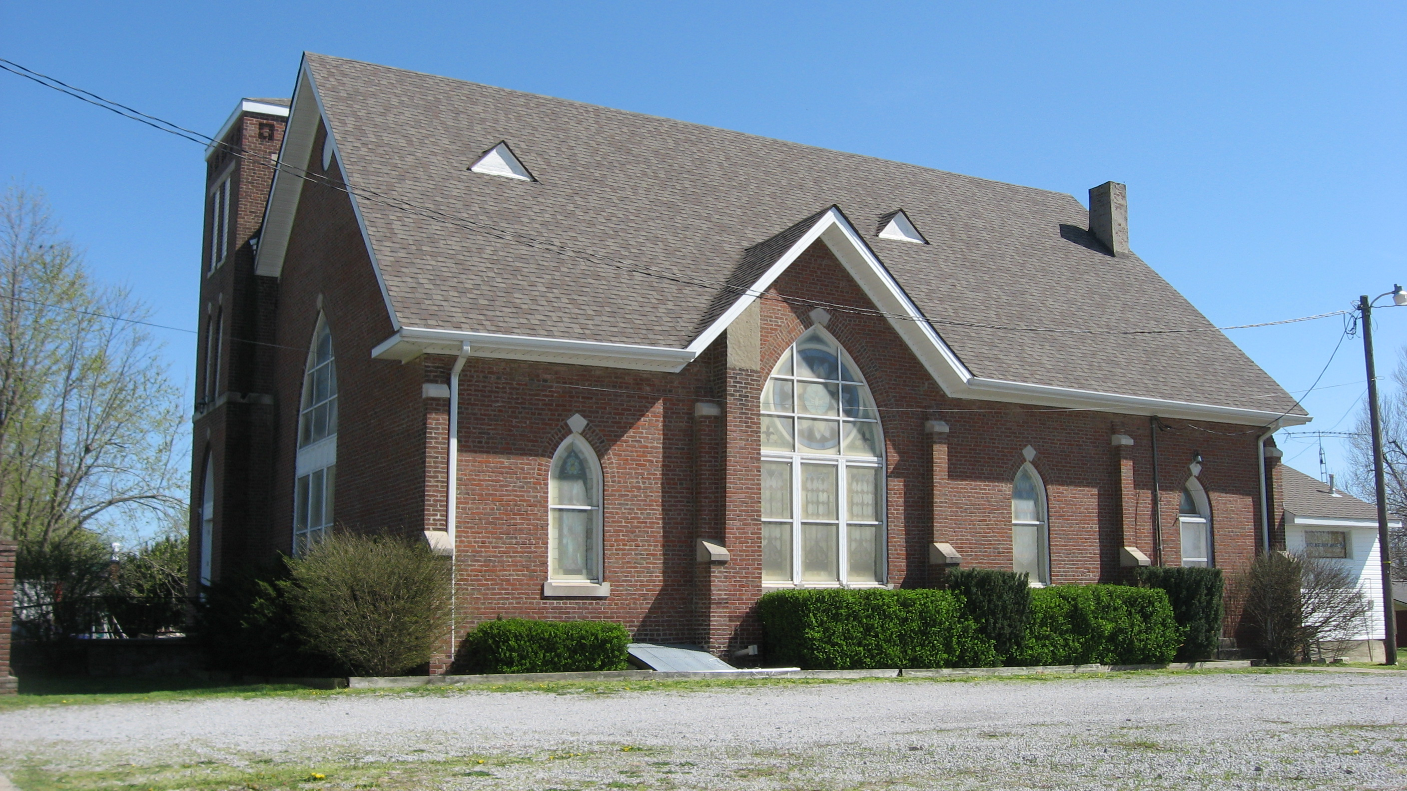 Western side and front of the former Fredonia Cumberland Presbyterian Church (now Unity Baptist Church), located at 20613 Marion Road (U.S. Route 641/Kentucky Route 70/Kentucky Route 91) in Fredonia, Kentucky, United States. Built in 1892, it is listed on the National Register of Historic Places.